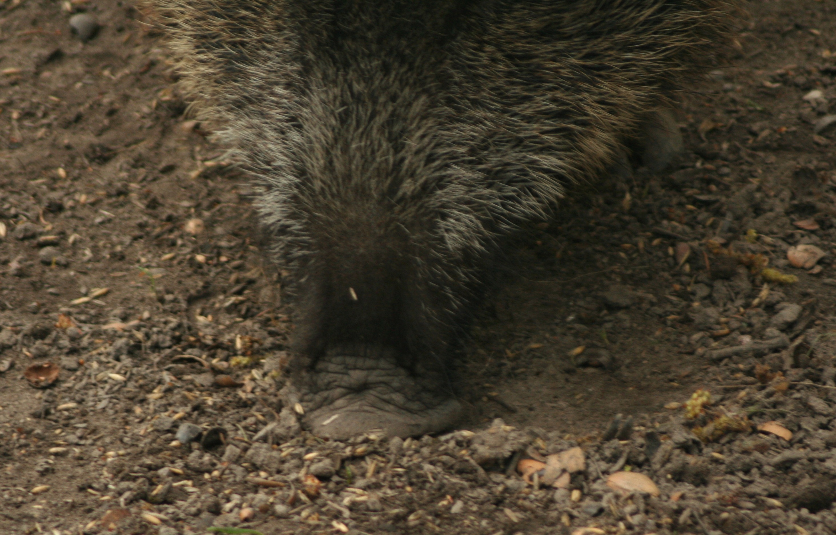 The wild boar (Sus scrofa) in Białowieża